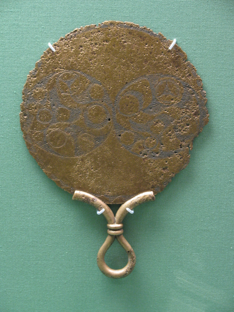 The St Keverne mirror at The British Museum, London. It was found in an Iron Age grave in 1886 during road construction in the area of St Keverne, Cornwall and has been dated to 120-80 BCE.